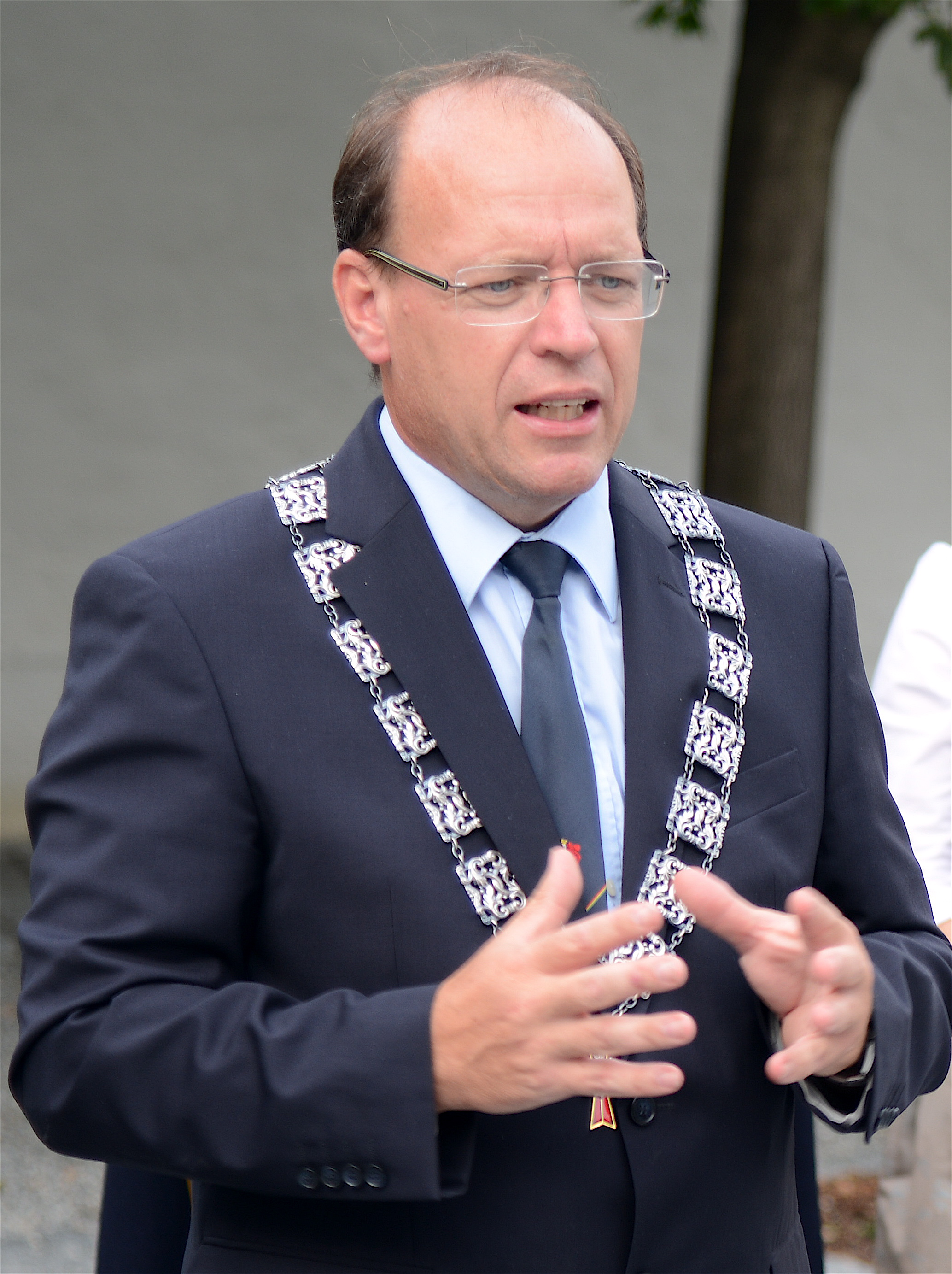 Andreas Liegenfeld